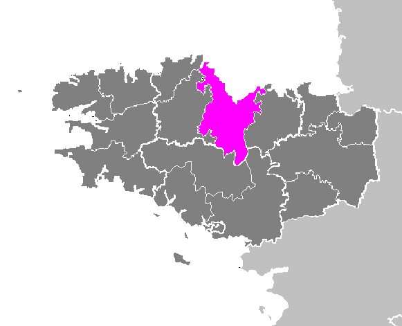 Maps of arrondissements and cantons of France: Arrondissement de Saint-Brieuc.PNG